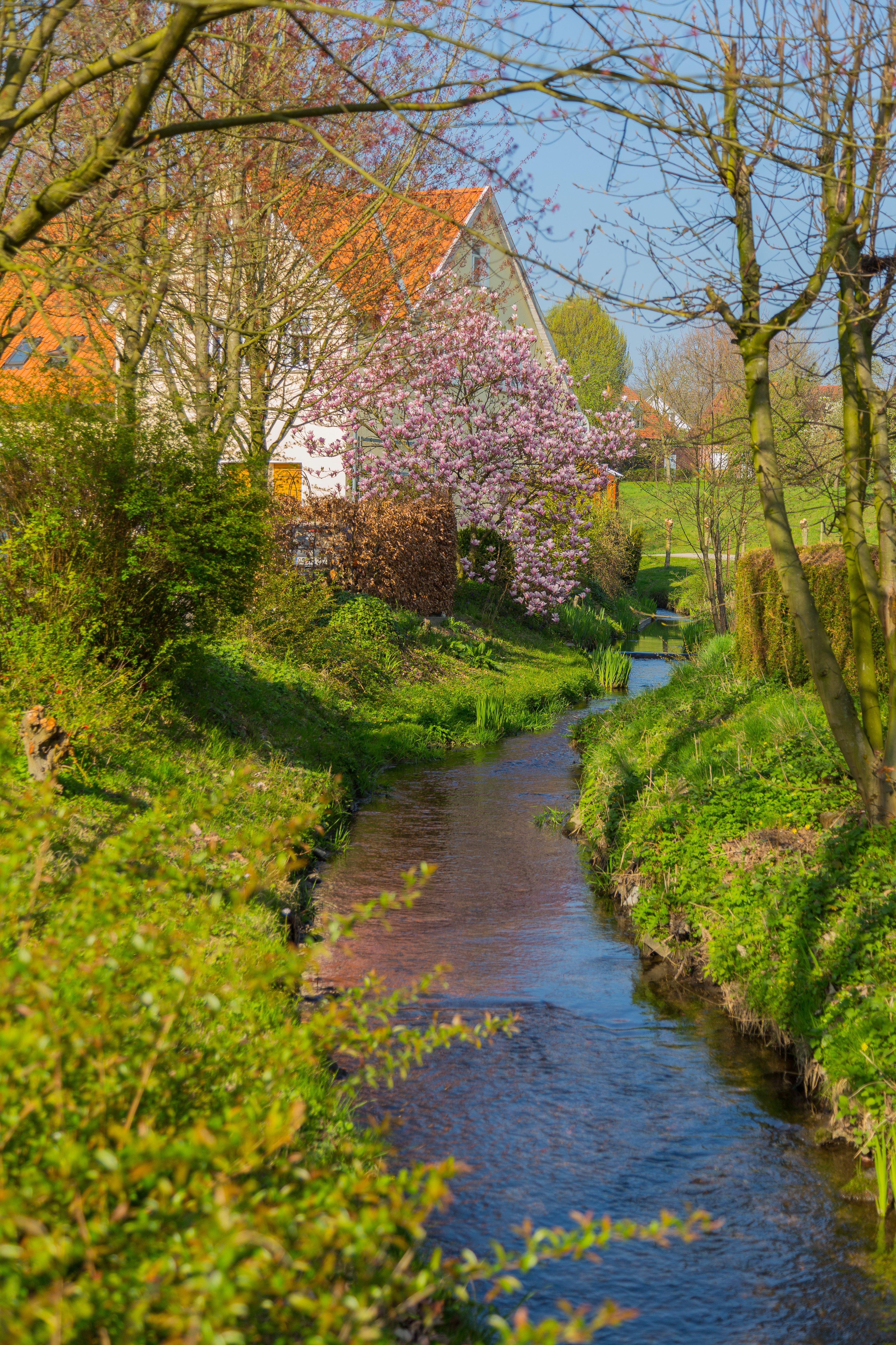 Glane Beck (Glaner Bach) in Glane, Bad Iburg, Landkreis Osnabrück, Lower Saxony, Germany.